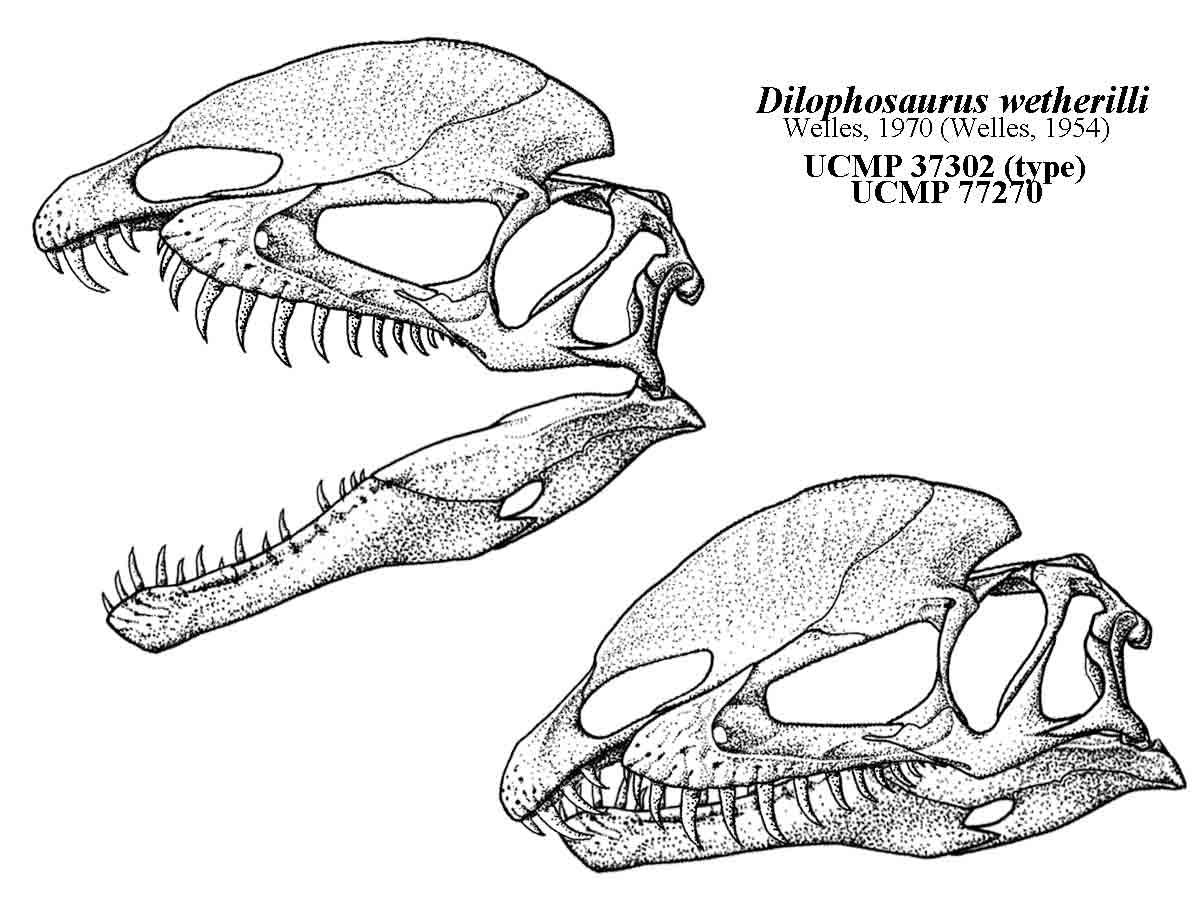 Skull reconstruction of Dilophosaurus wetherilli.